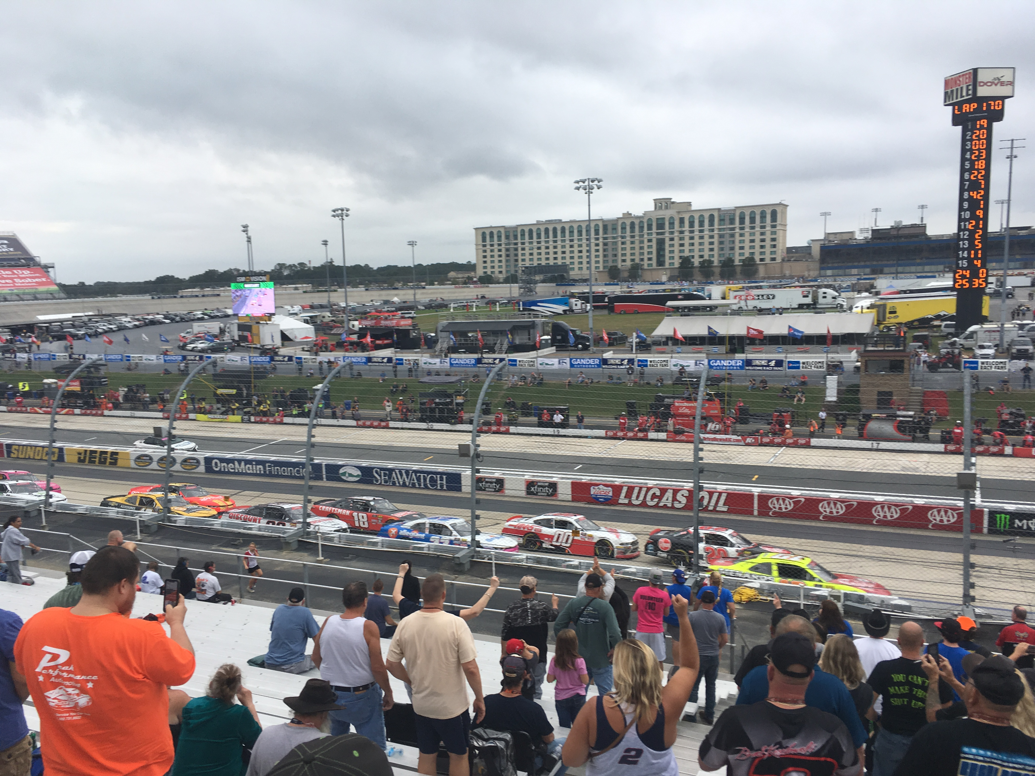 The 2018 Bar Harbor 200 at Dover International Speedway viewed from the frontstretch. Brandon Jones (#19) leads Christopher Bell (#20) and the rest of the field following a restart on lap 170.